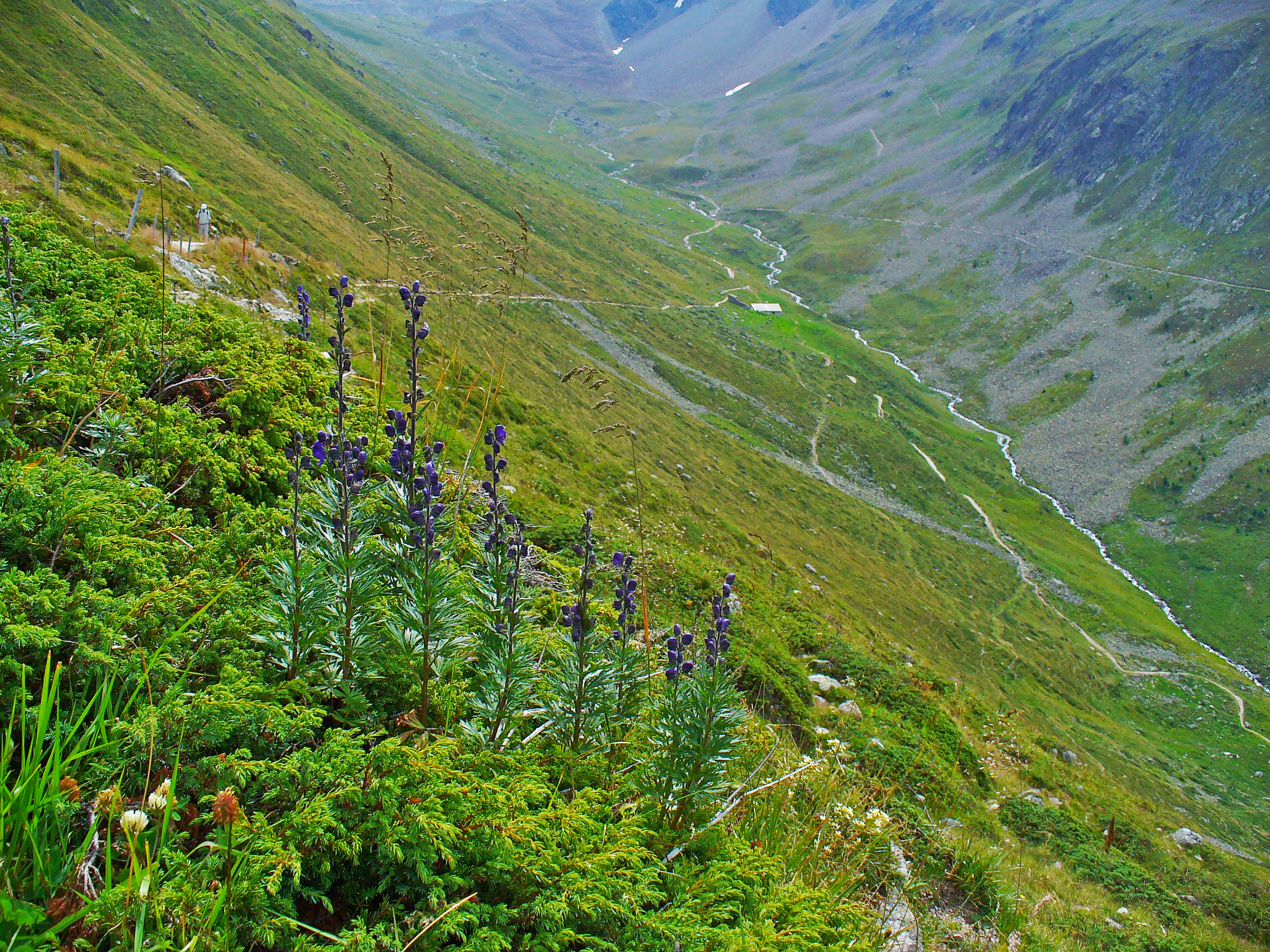 Aconitum napellus, Ranunculaceae, Monkshood, Wolf's Bane, Monk's Blood, Monk's Hood, habitus; Muottas Muragl, Engadin, Switzerland, altitude ca. 2400 m. The root tubers are used in homeopathy as remedy: Aconitum (Acon.)